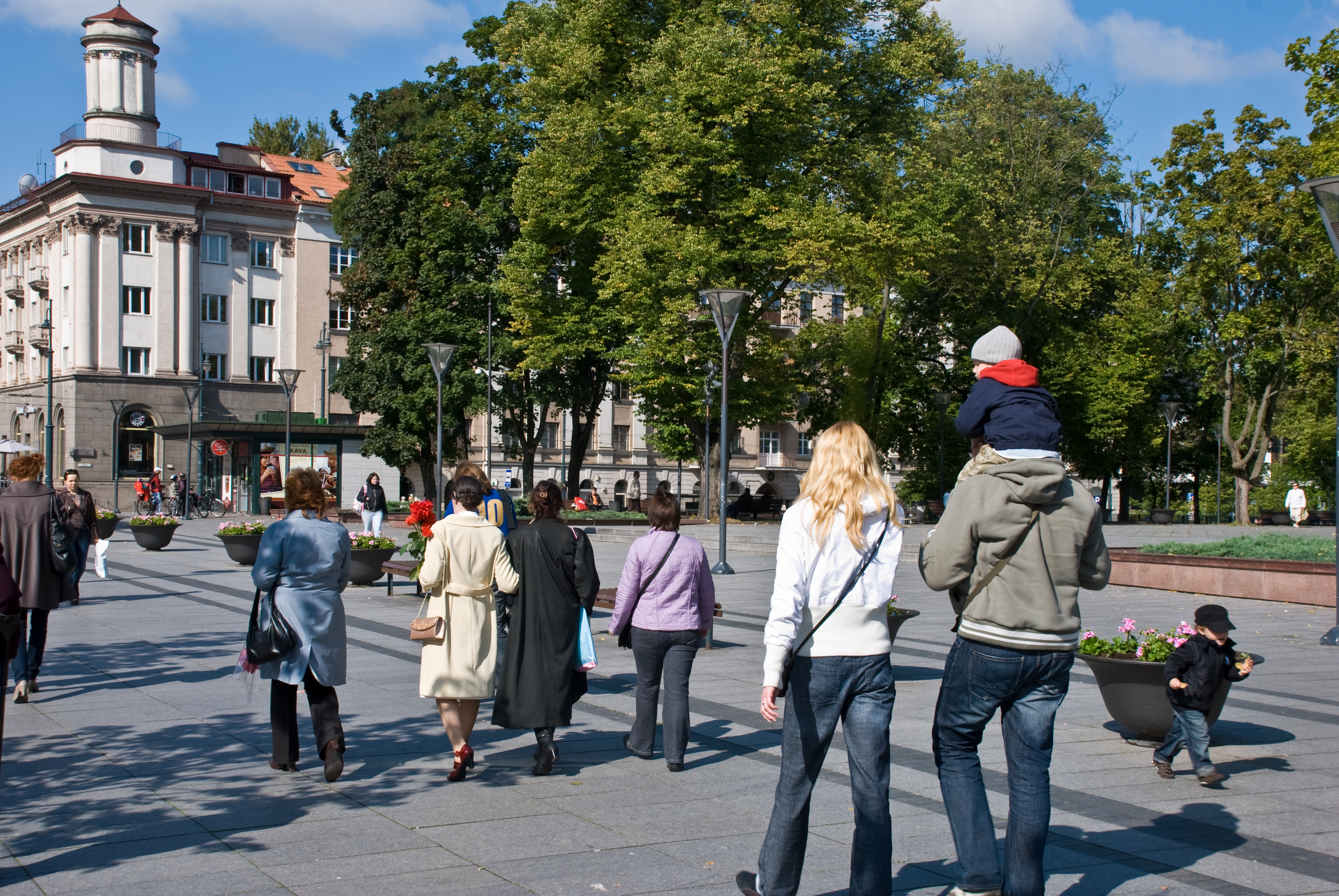 Sunday afternoon in Vilnius, Lithuania, 14 Sept. 2008